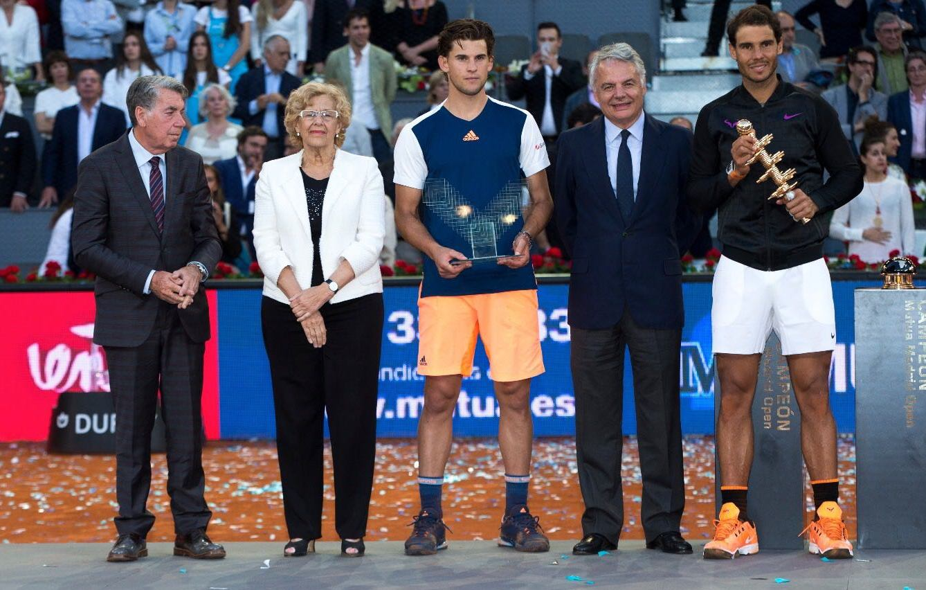 The Spanish tennis player Rafael Nadal has won the final in the Mutua Madrid Open 2017 against the Austrian Dominic Thiem. He triumphed in La Caja Mágica in two sets: 7-6 and 6-4, after almost three hours of play. It is Nadal's third title of 2017 after Monte Carlo and Godó. The mayor of Madrid, Manuela Carmena, presented the trophy to the Mallorcan athlete, who has won his fifth Open de Madrid.